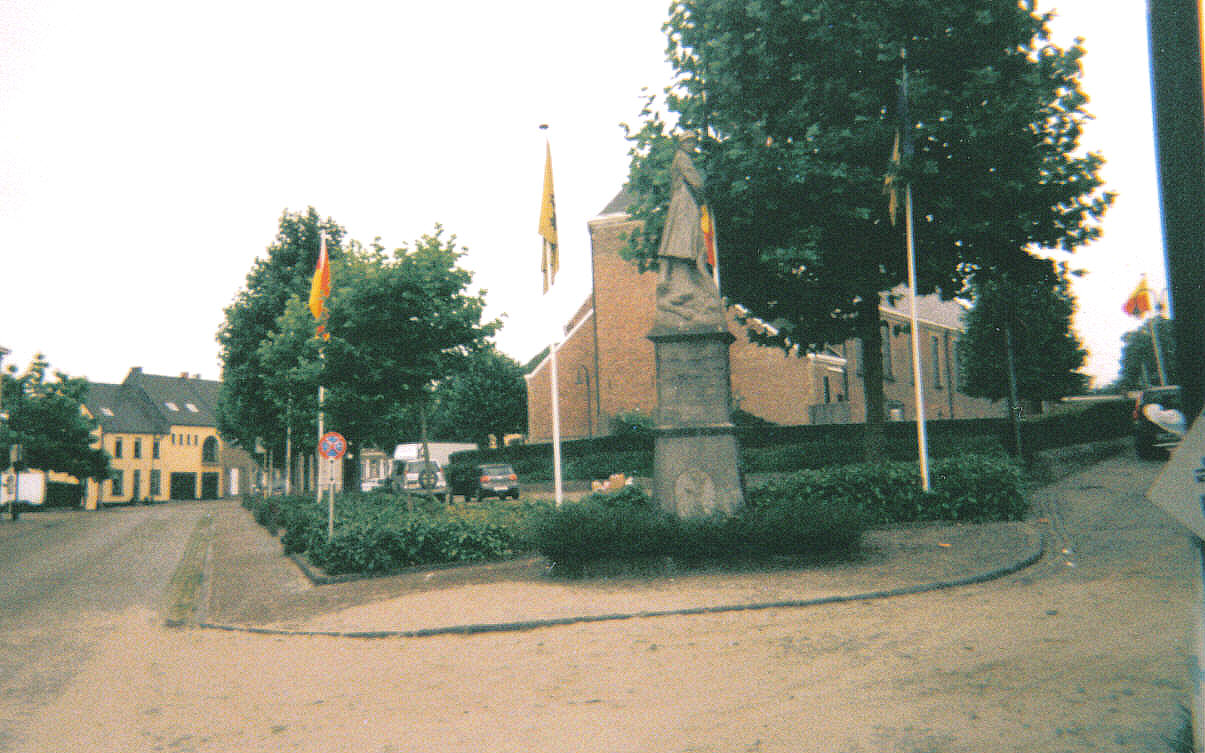 The village square of Mater, a submunicipality of Oudenaarde, Belgium. The statue is a First World War monument.